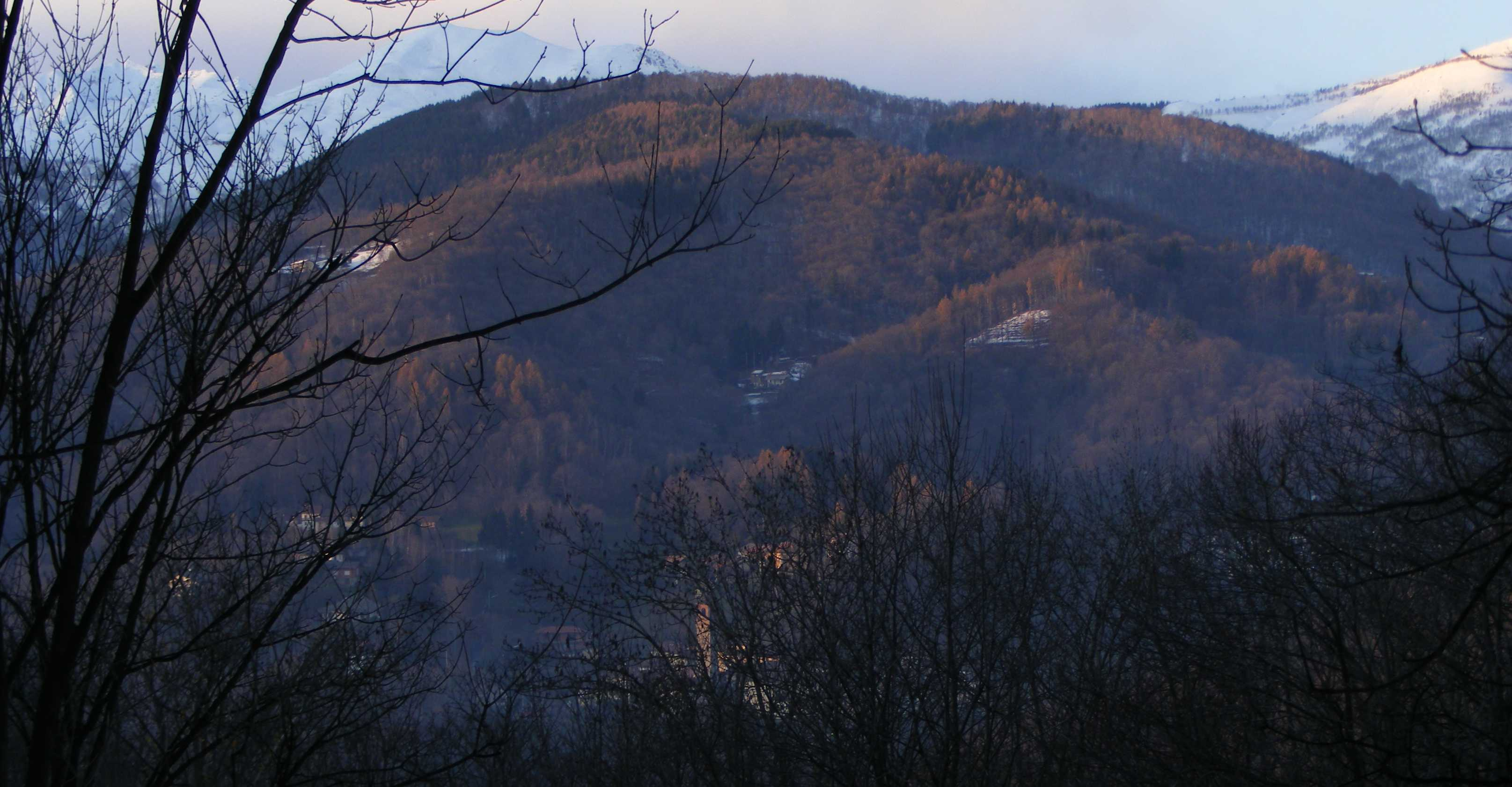 Mount Casto from Mount Turlo (Biellese, Italy, Piedmont)